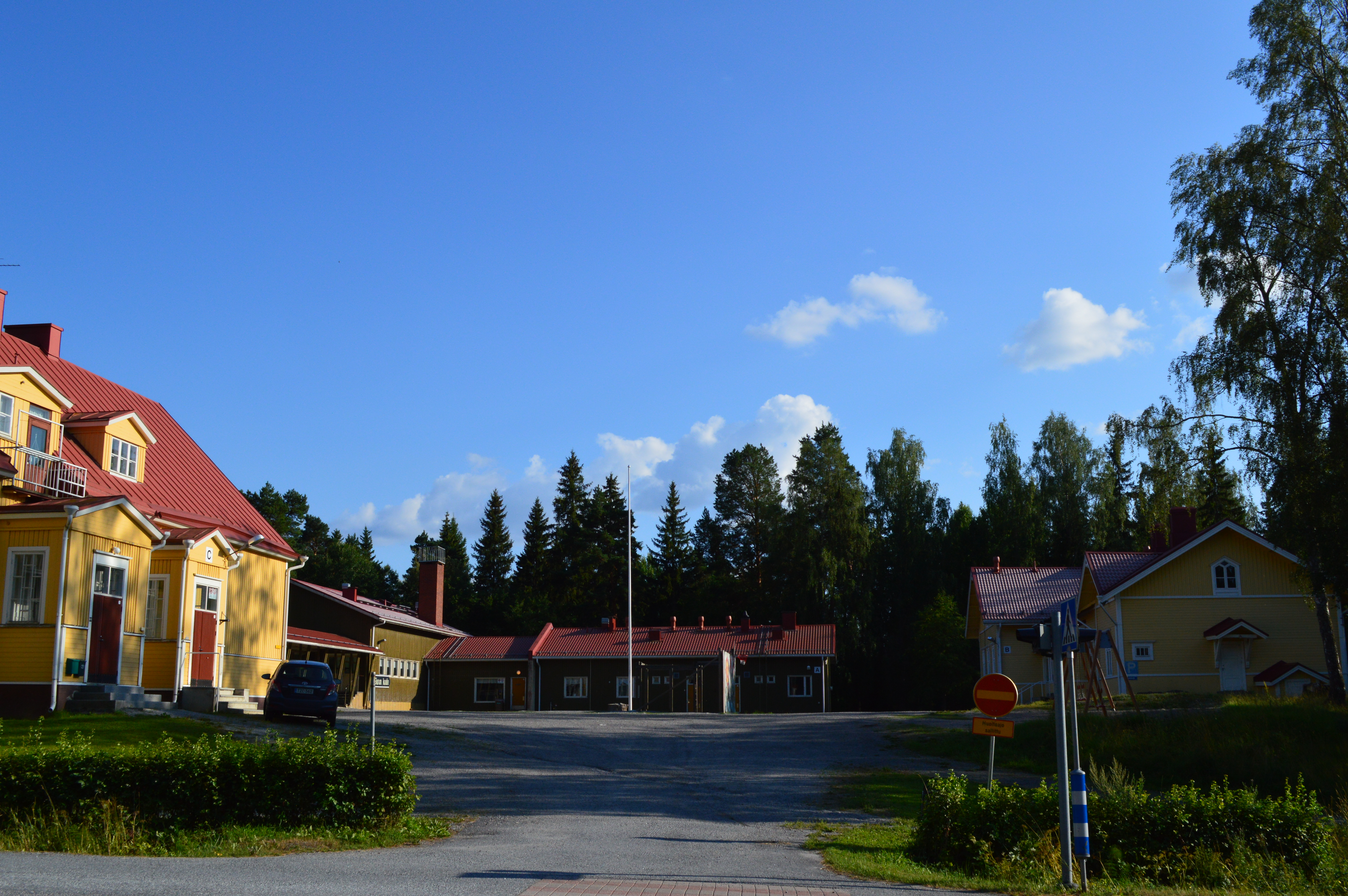 School of Siuro